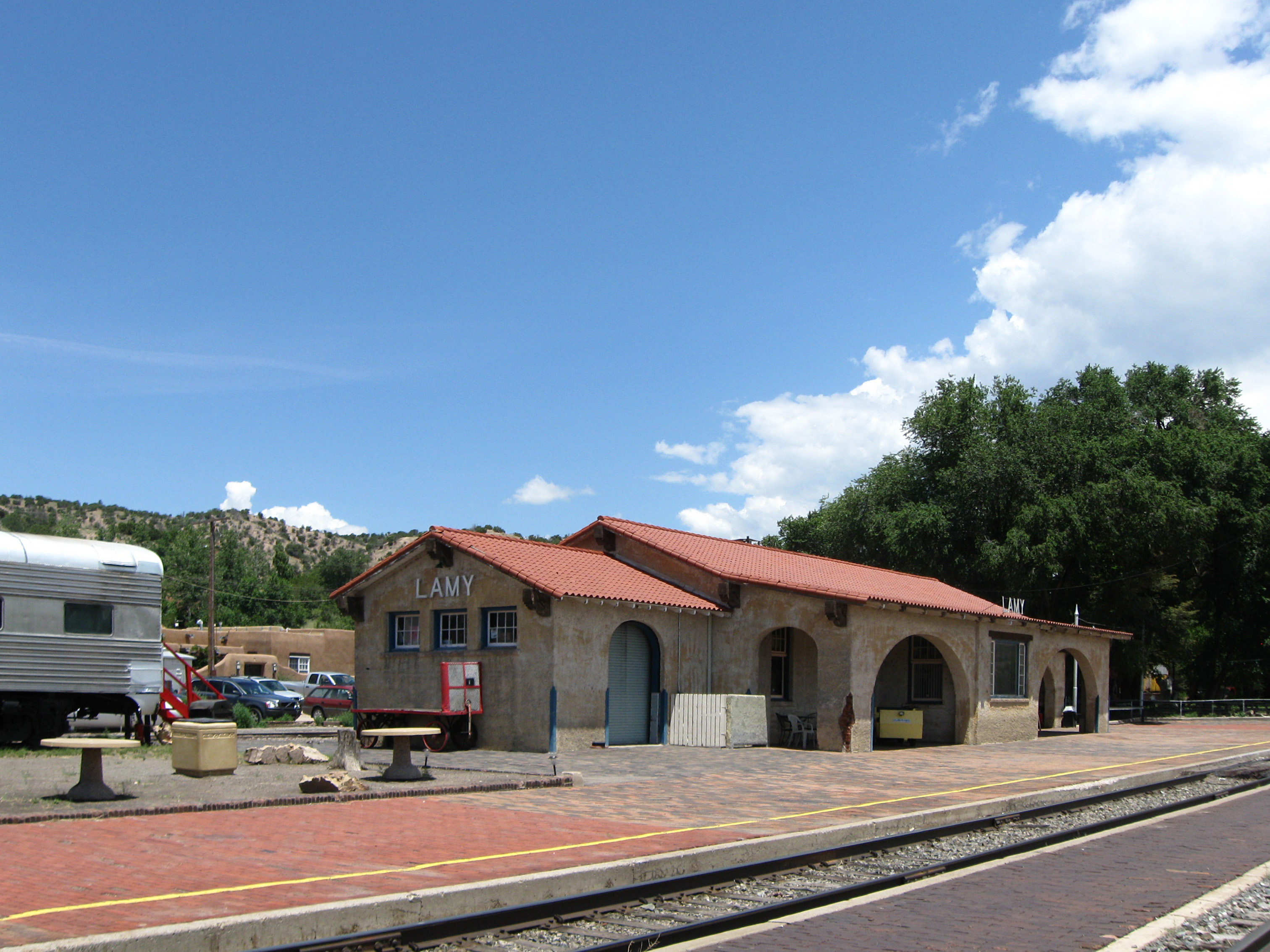 Train station in Lamy, New Mexico